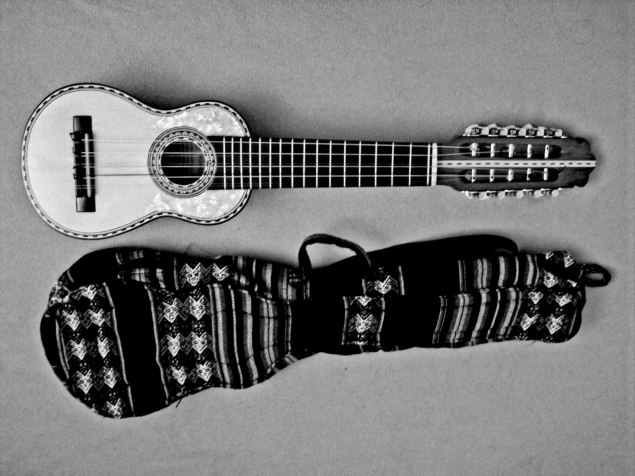 Charango Hecho en la poblacion de Aiquile en Cochabamba, Bolivia.